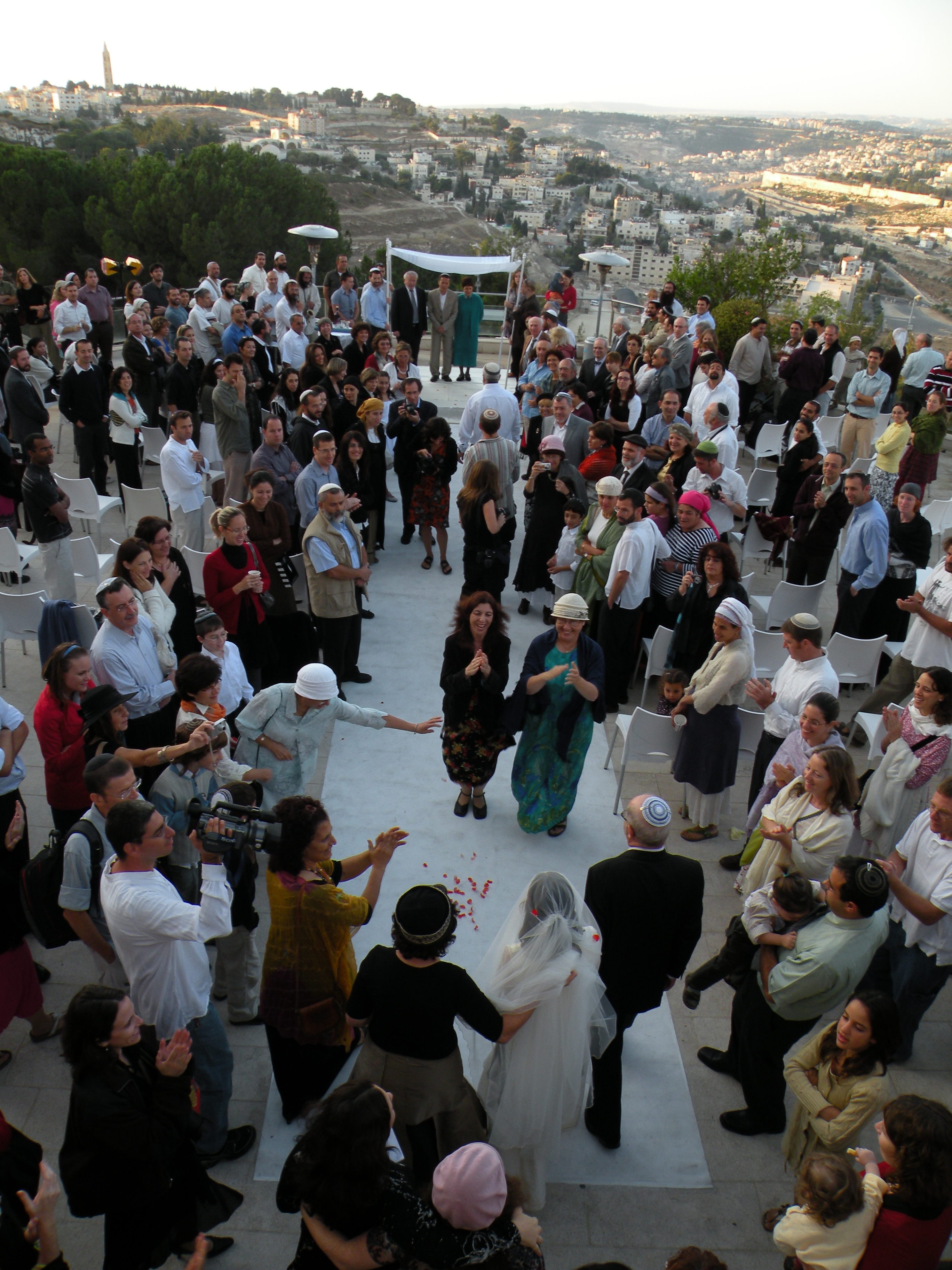 Wedding at Sunrise in front of the Temple Mount, Events in Israel